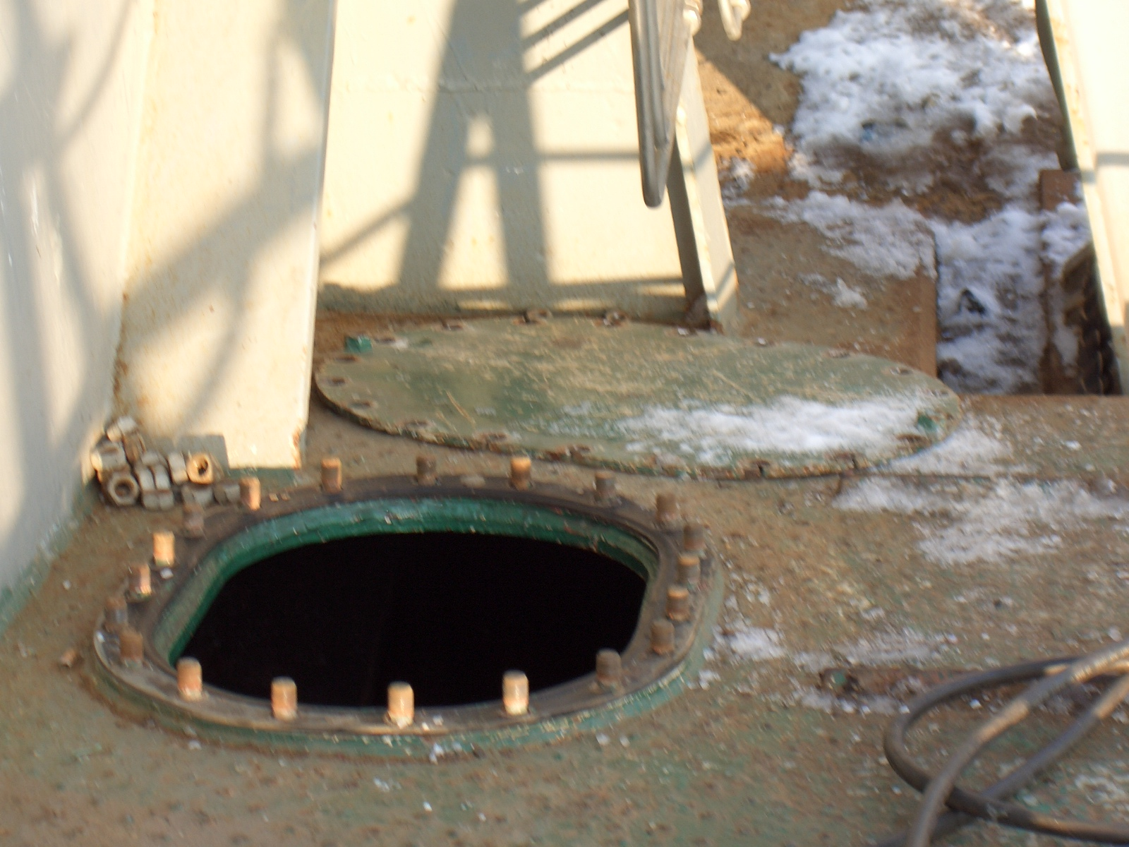 Manhole on a ship.